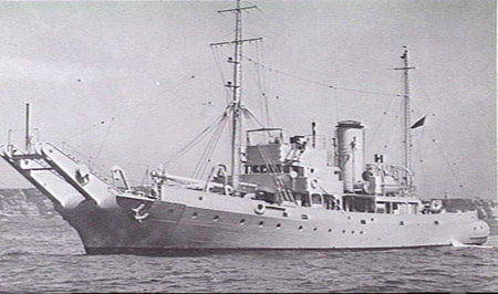 AWM Caption: SYDNEY, NSW. 1940-09-26. PORT SIDE VIEW OF THE BOOM WORKING VESSEL HMAS KANGAROO THE DAY BEFORE SHE WAS COMMISSIONED. NOTE THAT SHE FLIES THE RED ENSIGN.